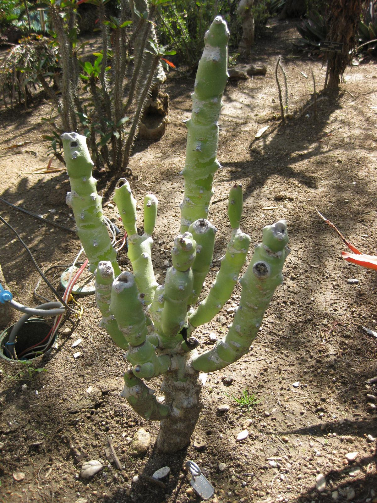 Euphorbia caducifolia photographed at Huntington Gardens (Los Angeles, California) in March